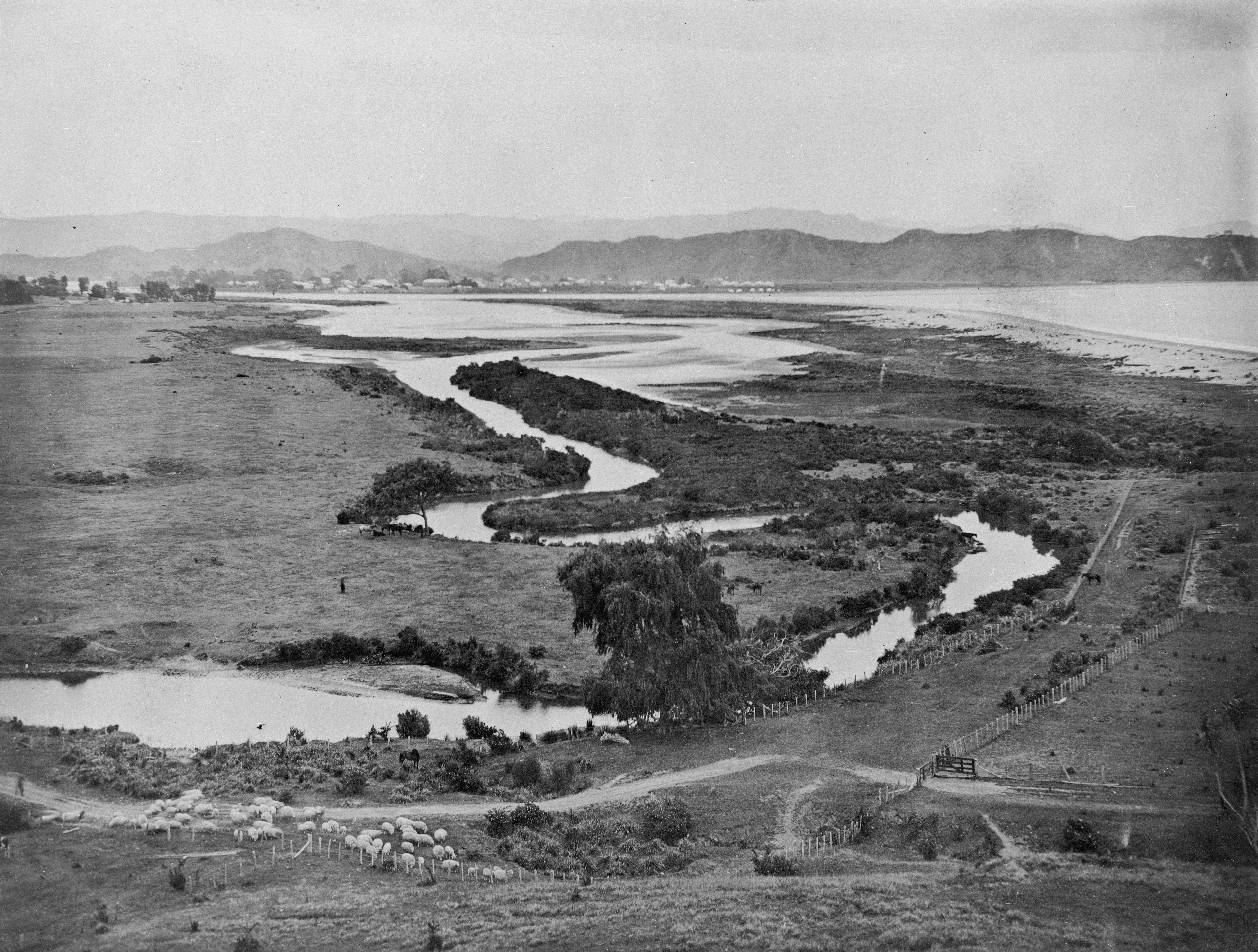 Tolaga Bay in the Gisborne Region of New Zealand's North Island, circa 1914, photographed by Frederick Hargreaves. Cropped from original (see "File history" below).